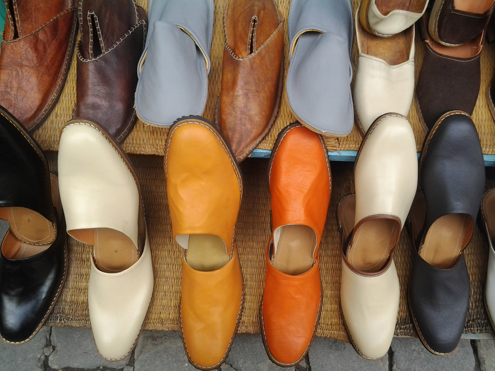 This is an image of Cultural Fashion or Adornment from Tunisia